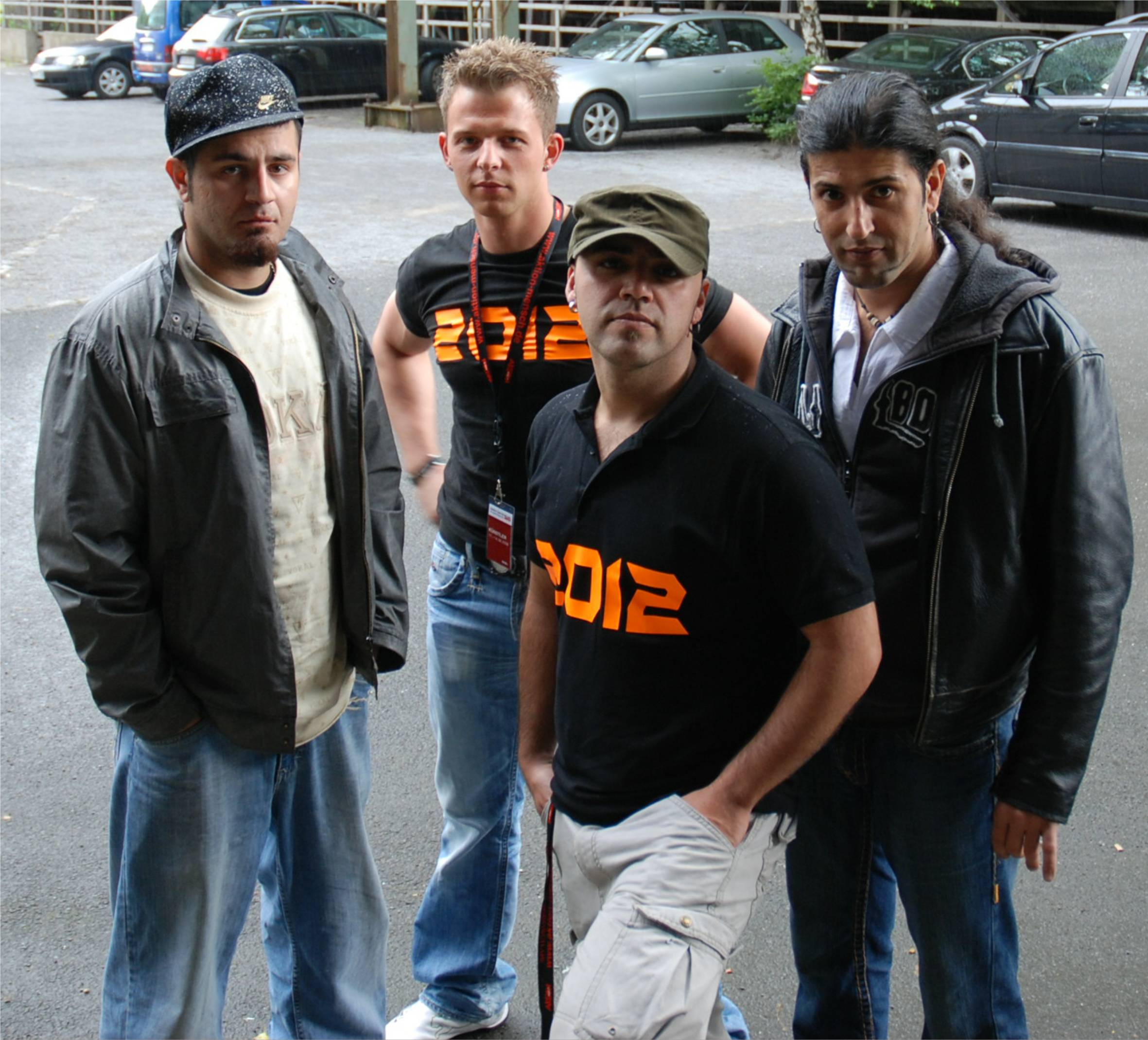 Tapesh 2012, RAP group.